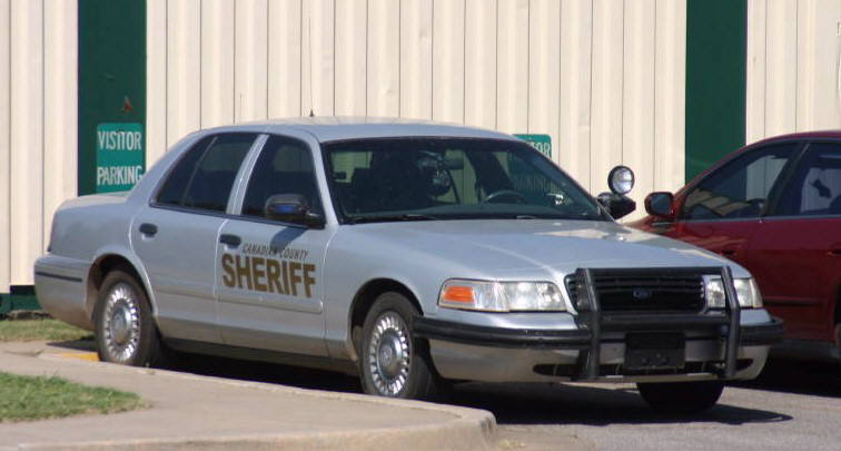 Canadian County Sheriff, Oklahoma.